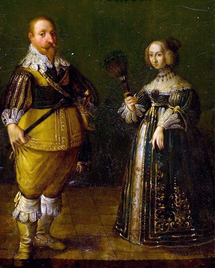 King Gustavus Adolphus of Sweden and Queen Mary Eleanor